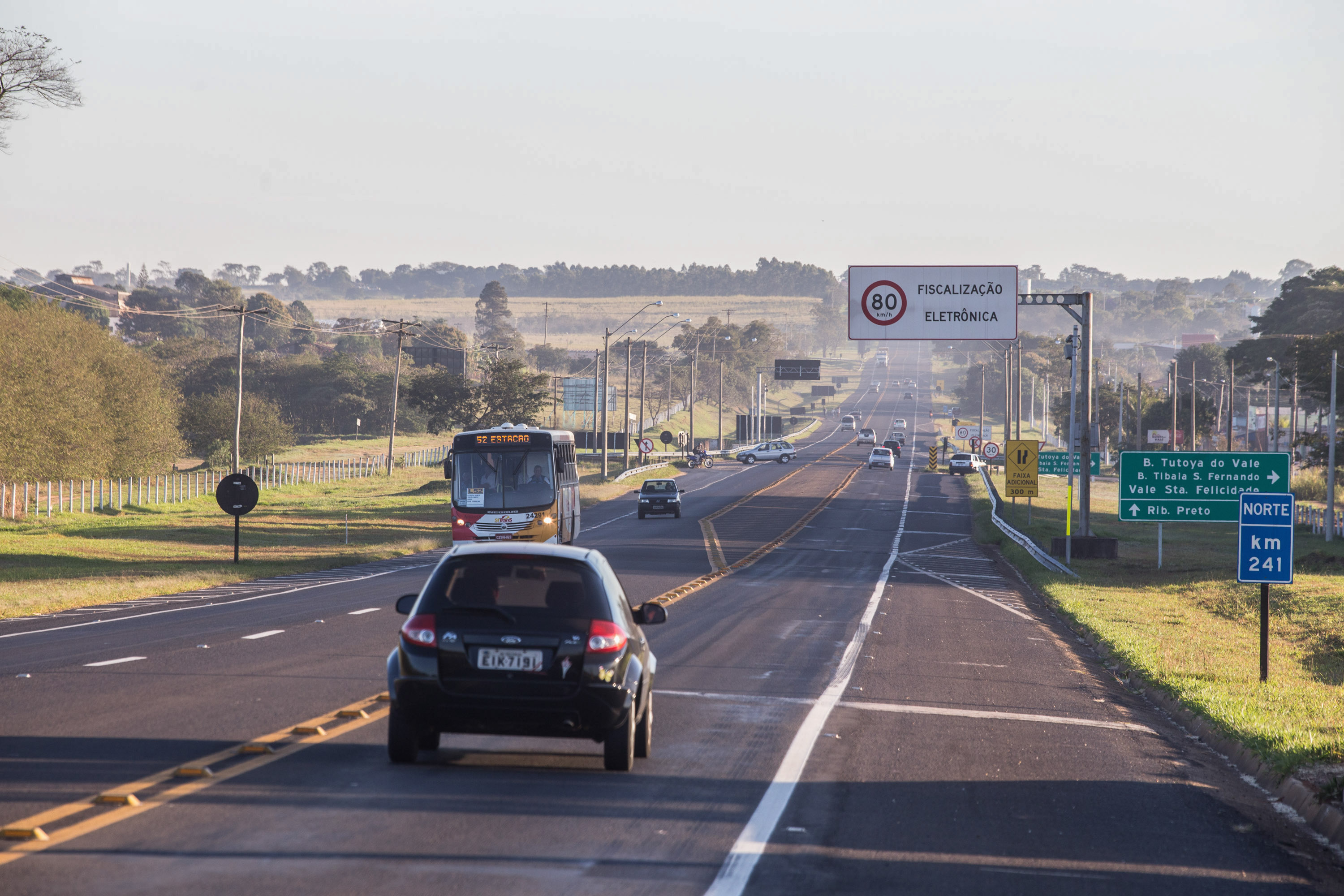 O governador Geraldo Alckmin anuncia a duplicação da Rodovia SP-318 que liga São Carlos a Ribeirão Preto.Data: 25/06/2014. Local: São Carlos/SP.Foto: Vagner Campos/A2 FOTOGRAFIA